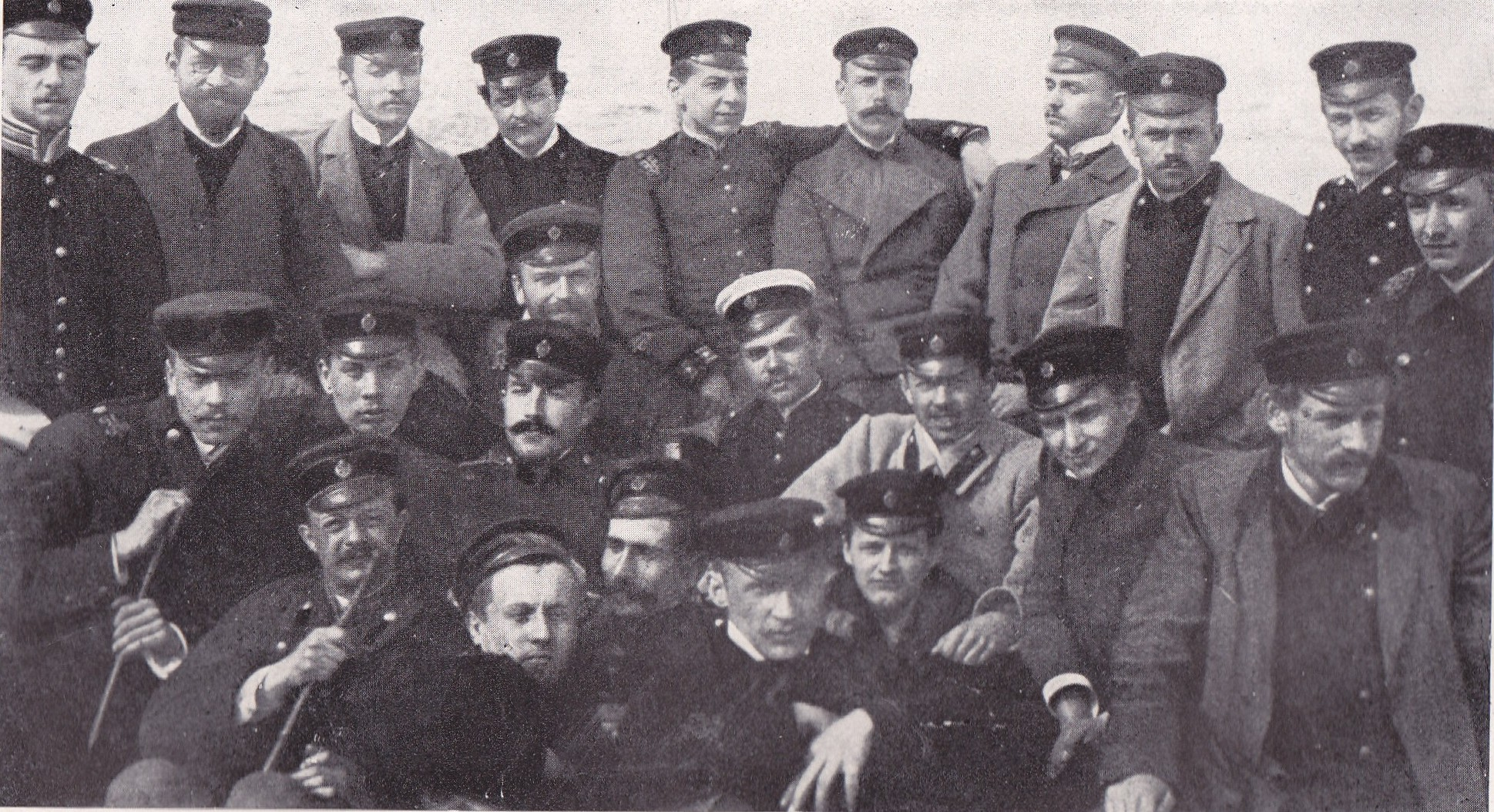 members of Warsaw Technical University Students Union in 1903